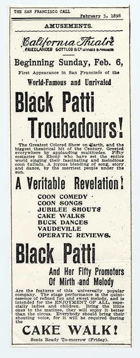 Poster advertising appearance of Black Patti Troubadours